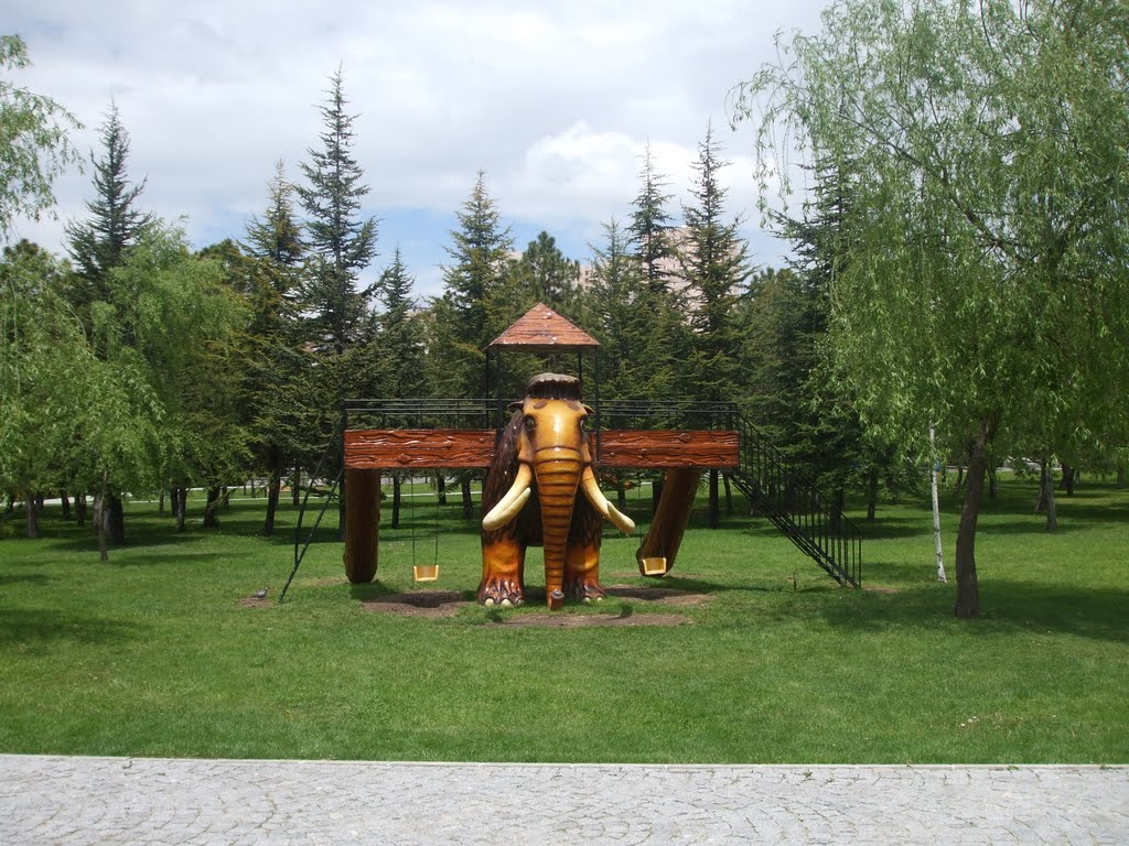 Yenimahalle park, 2011.